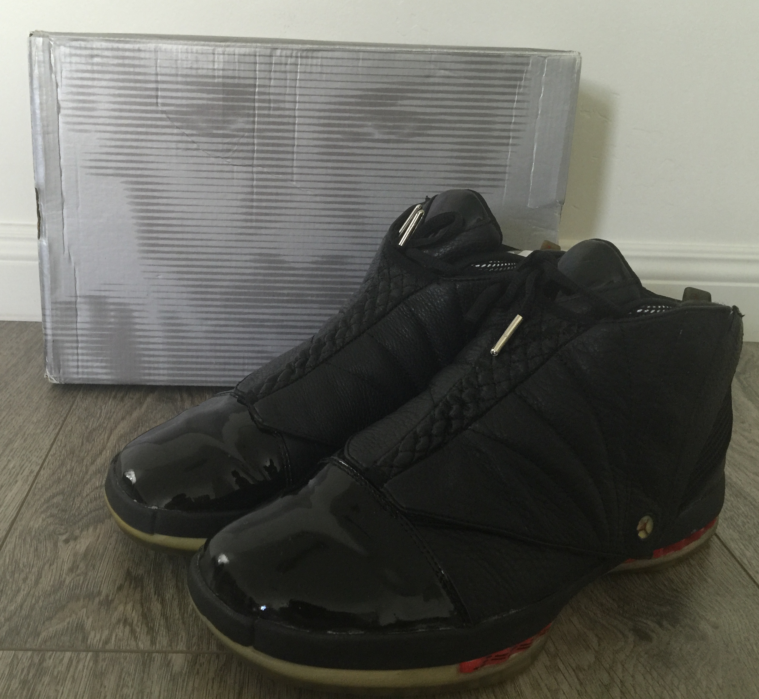 NIke Air Jordan XVI